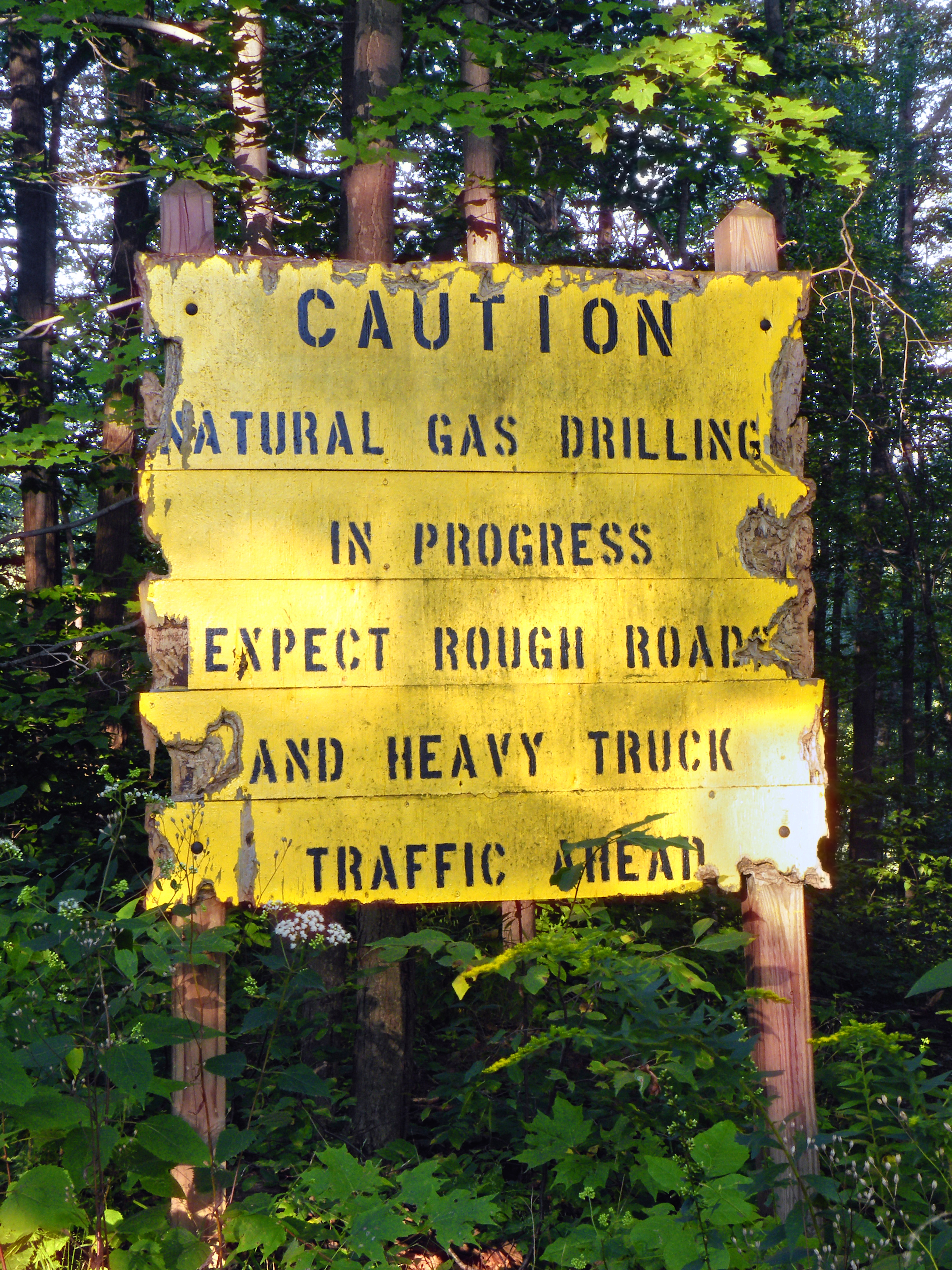 McConnell Road, Susquehannock State Forest, Potter County. Unpaved McConnell Road passes by many gas-drilling sites as it traverses the state forest. Rutted, rocky, and filled with potholes, the road was a challenge even for my high-clearance, 4-wheel-drive vehicle.